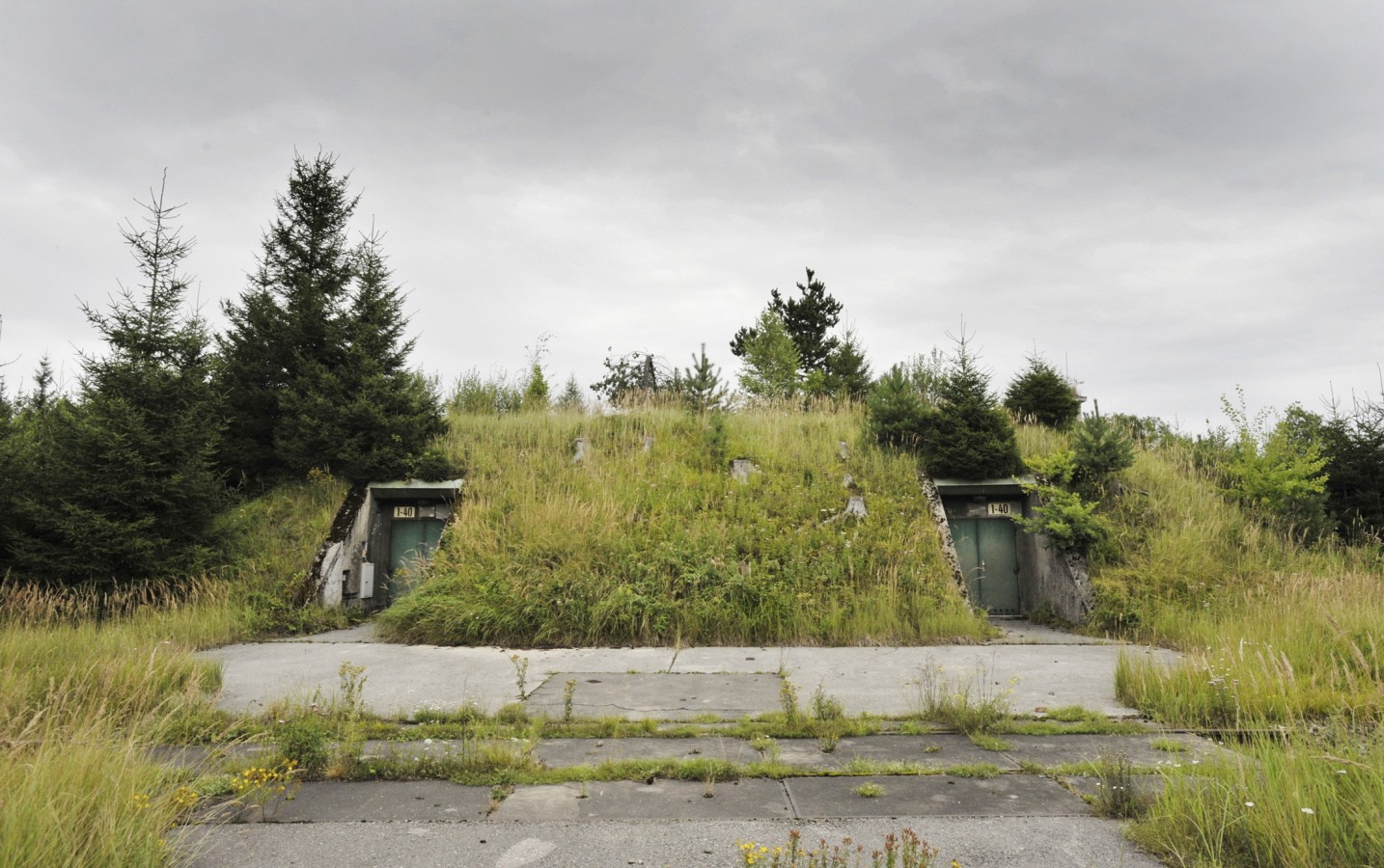 MUNA Bunker Hohenbrunn